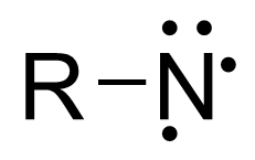 Skeletal diagram of the general form of a nitrene functional group in the triplet electronic state